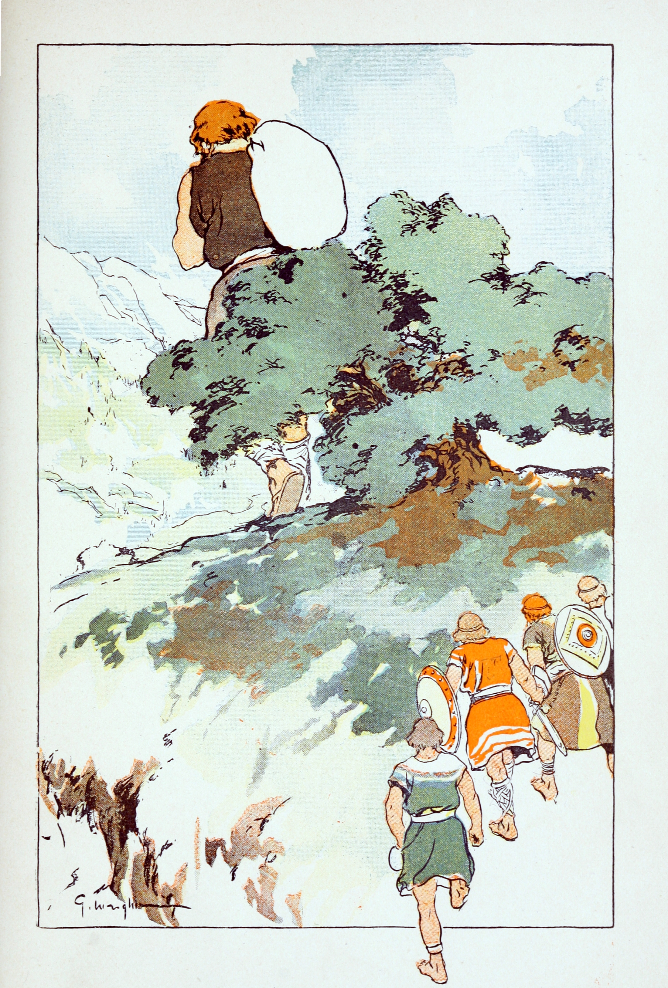 They started off, the giant tramping on ahead. Illustration to the story of Thor's journey to Útgarða-Loki.